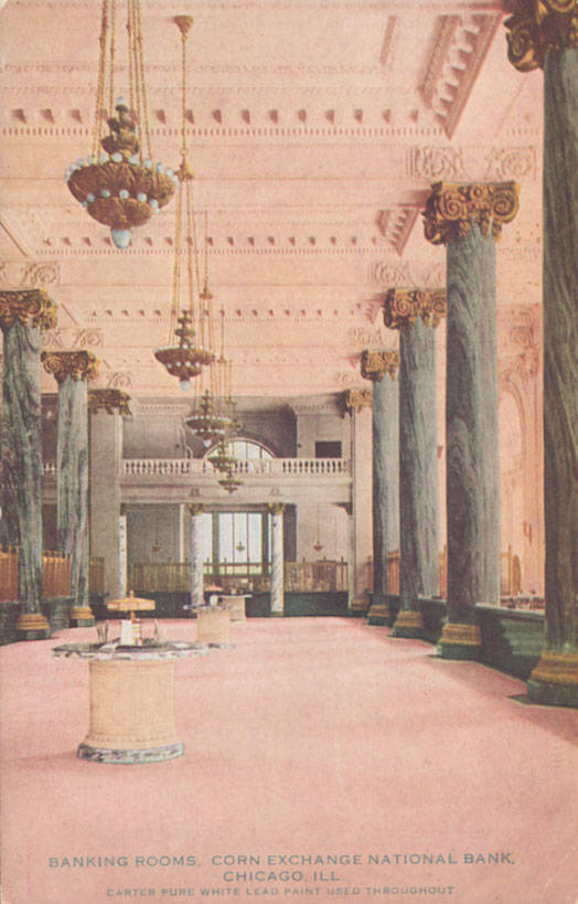 Banking Rooms, Corn Exchange National Bank, Chicago, Illinois Carter Pure White Lead Paint Used Throughout